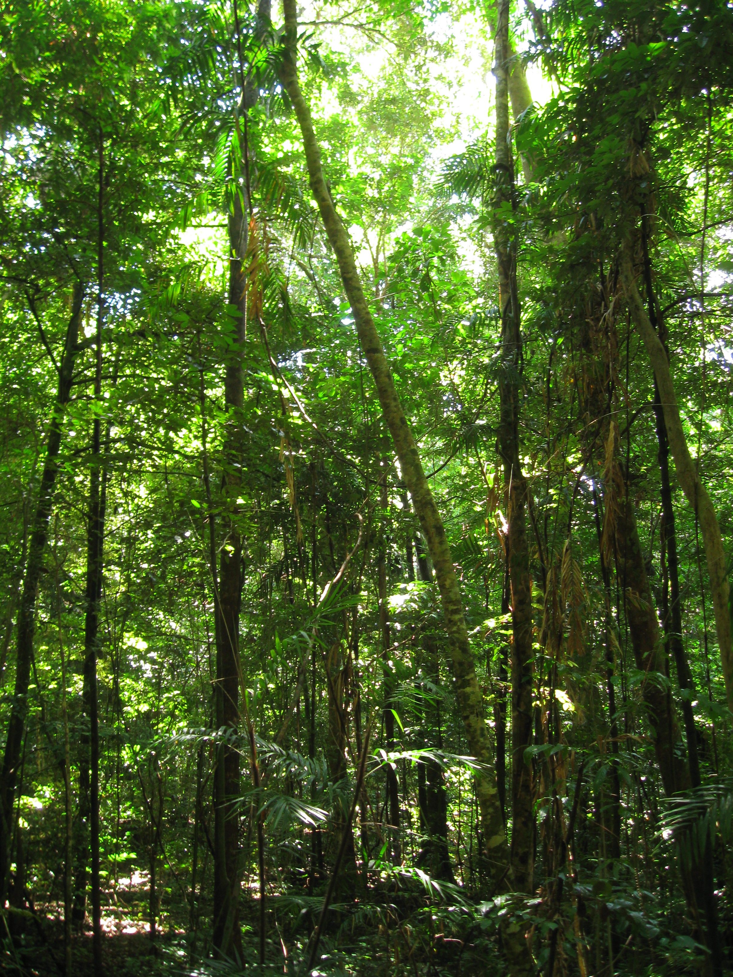 Daintree Rainforest, Queensland, Australia